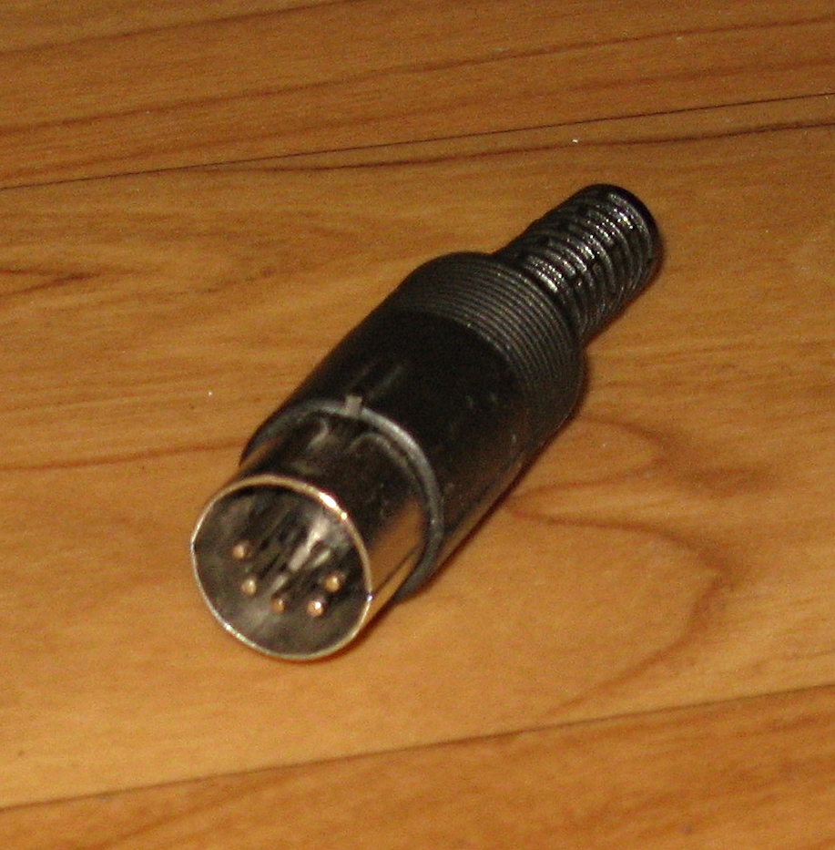 Din-connector